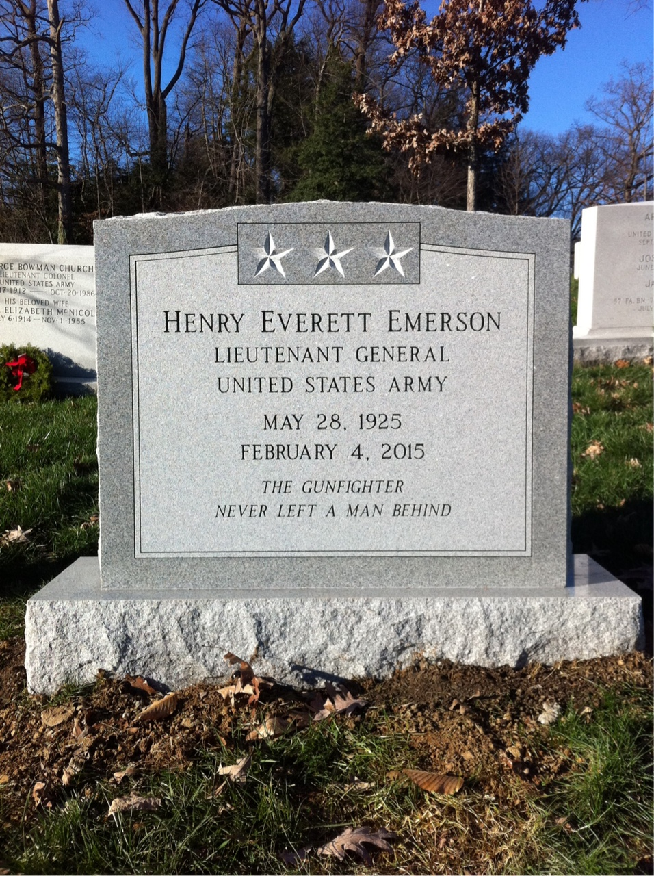 Grave of Henry E. Emerson at Arlington National Cemetery